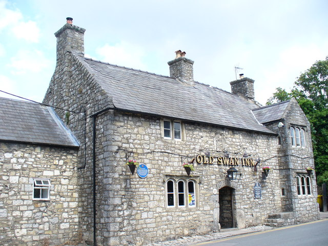 Old Swan Inn Historic inn in the centre of Llantwit Major. The village was a centre of learning for Welsh saints.